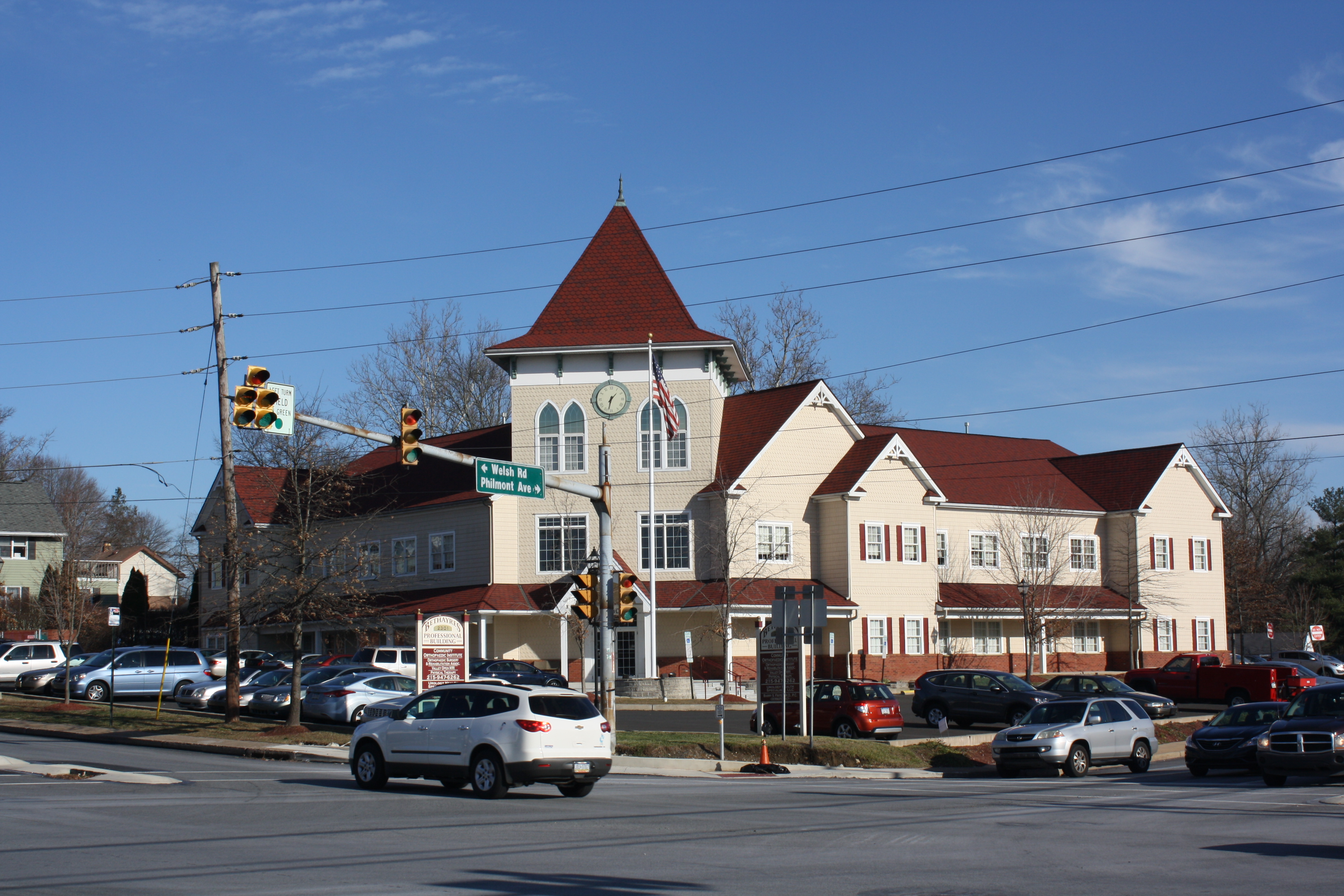 NW Corner of Huntingdon Pk. and Philmont Ave., 2301 Huntingdon Pike, Bethayres, Montgomery County, PA.